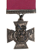 Cropped version of 8bit 300dpi Scanned Image of Victoria Cross Medal Ribbon (excluding bar)